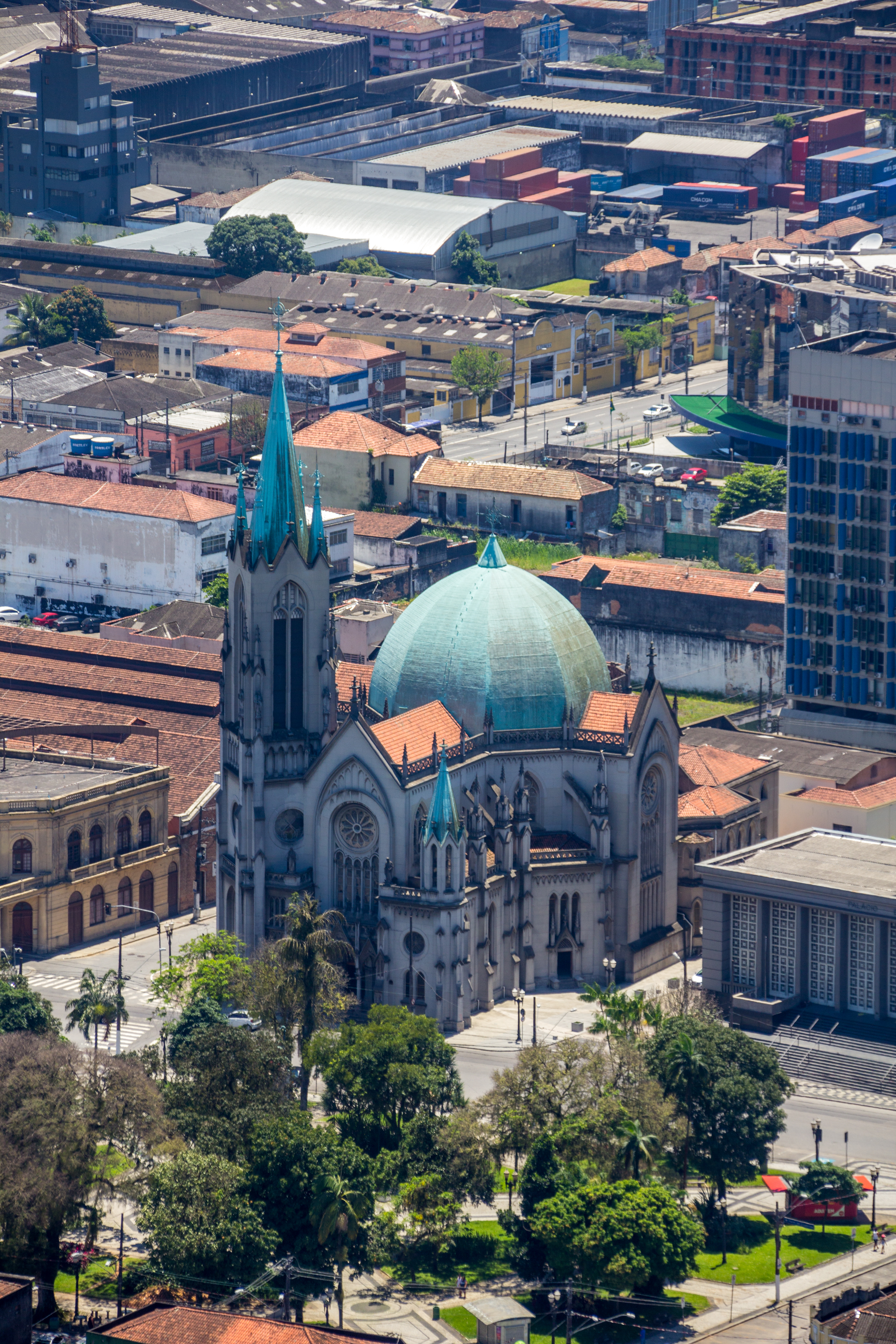 Santos, São Paulo, Brazil